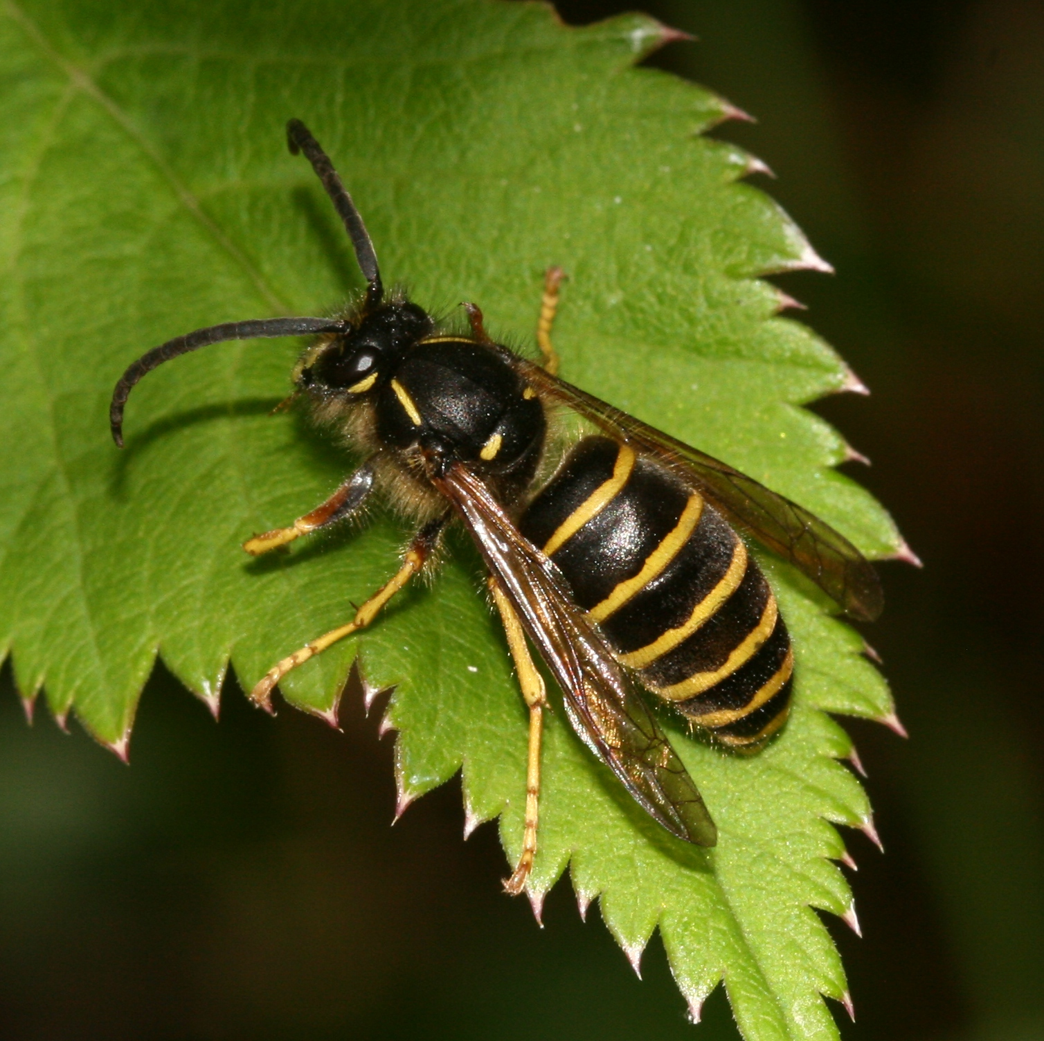 Bolton Muir, East Lothian, Scotland Thanks to Steven Falk for the id correction